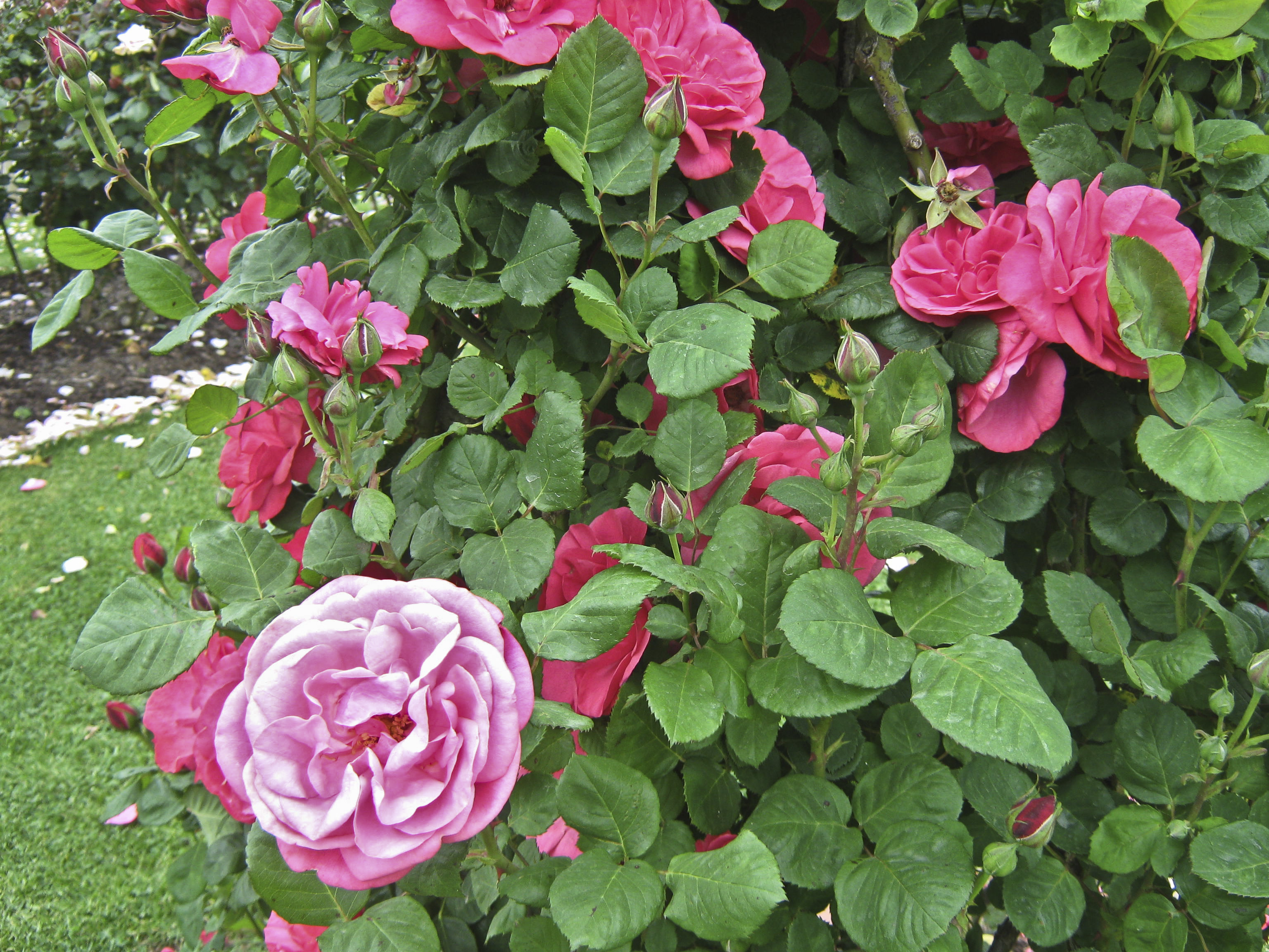 Rose 'Titian' 1950 by Riethmuller; photographed in the Victoria State Rose Garden, Werribee Park, Victoria